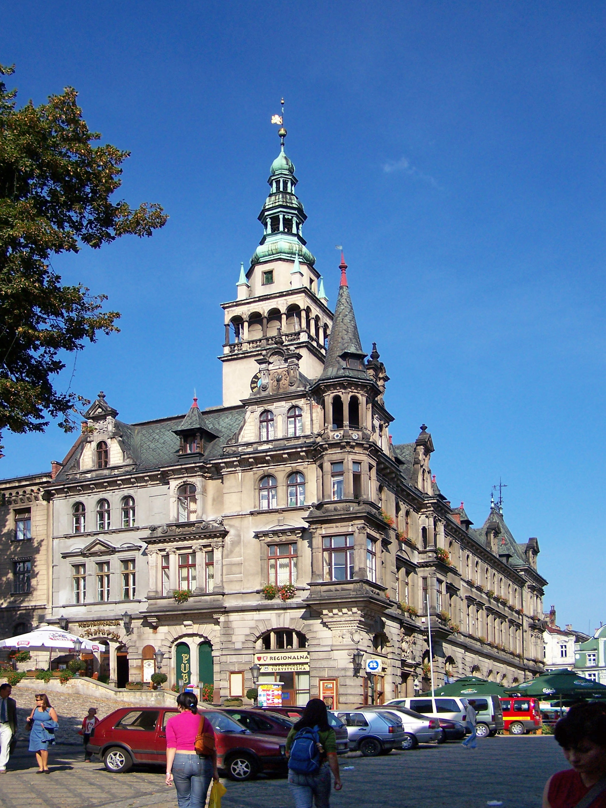 Cityhall in Kłodzko (Poland).